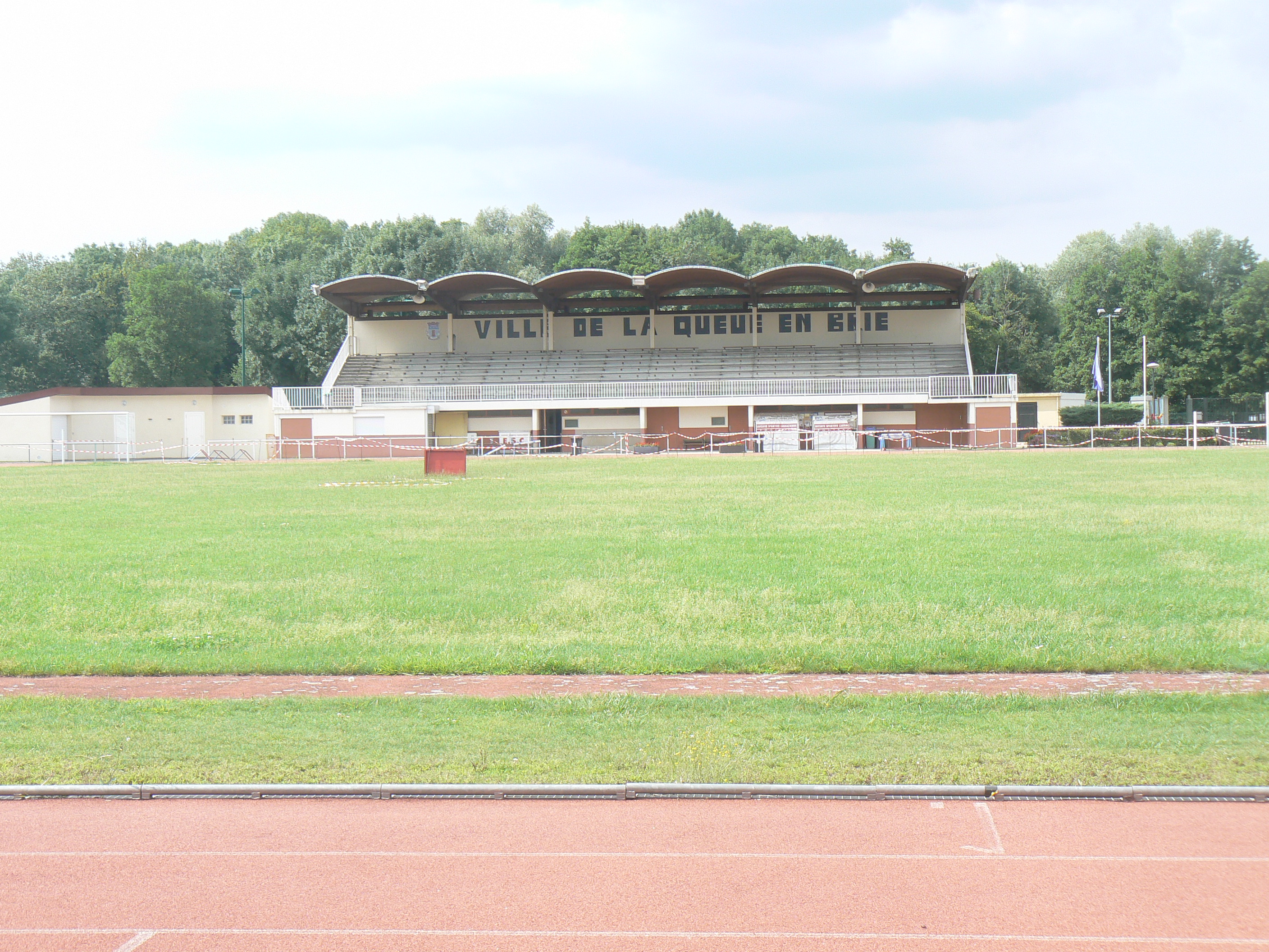 Robert Barrant Stadium, La Queue-en-Brie, France